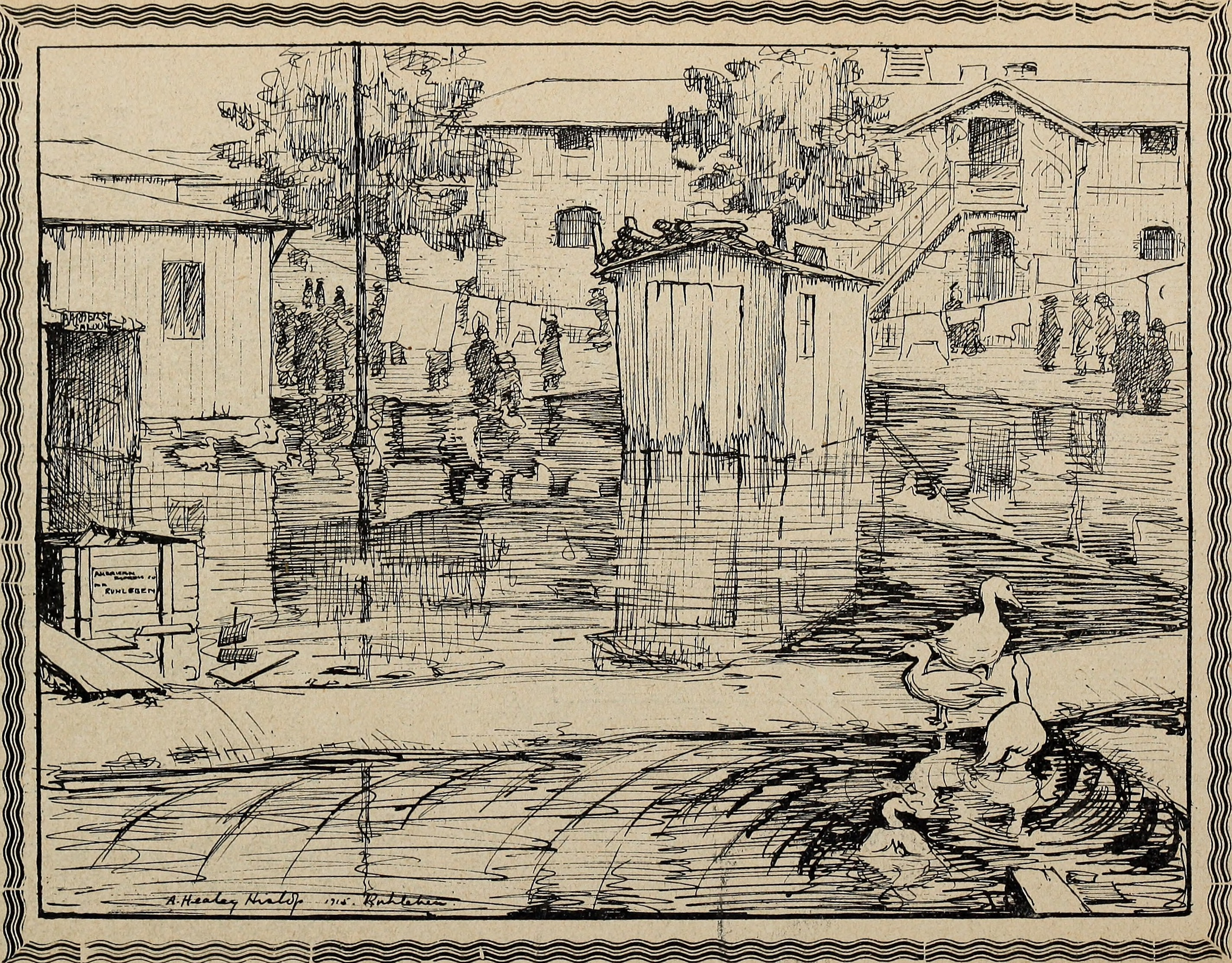 Title: The Ruhleben camp magazine Year: 1916 (1910s) Authors: Subjects: Ruhleben (Concentration camp) World War, 1914-1918 World War, 1914-1918 Publisher: (Berlin, J.S. Preuss, printer) Text Appearing Before Image: WhiteWhite to play aud mate in three moves. We have much pleasure in giving an interesting game on the Caro-Kann defence. As is no doubt well known Caro is at present in our midst. WHITE. BLACK. WHITE. BLACC H. JENNINGS. C. S. TABER. 1 H. JENNINGS C. S. TABER 1. P-K 4 P-QB3 20. Q-K2 PXKt 2. P—Q 4 P—Q4 21. Q—R 6 ch K—Q2 3. Kt-QB3 PXP 22. R—Kt 7 ch Kt-B2 4. KtXP B—B4 23. PXP R—Q B sq 5. Kt-Kt3 B-Kt3 24. R—Q sq ch K-Ksq 6. Kt-B3 P—K3 (a^ 25. QXBPch K-Bsq 7. B—QB4 Kt-B3 26. R-Q7 (g) Q—Ksq 8. B—K Kt 5 B—K2 27. R(Kt7)XKt QR—Ktsq 9. Kt—K5 Kt-Q4 (b) 28. RXPch K - Kt sq 10. KtXB RP XKt 29. KR-Q7 BXPch(h) 11. B-Q2 Kt-Q2 30. K—Q2 B-K4 12. Q-B3 Q-Kt3 (c) 31. RxRP R—Bsq 13. Castles (Q-R) B—B3 32. Q Kt7 R—Qsq (d) 33. P-B6 K—R2 14. B-K3 Castles (QR) 34. K—K 2 KR-Ktsq 15. Kt—K4 Q-Kt5 (ej 35. Q-Kt4 B-B3 16. R-Q3 KtQ2)—Kt3 36. P—Kt 4 R-Ktsq 17. BXKt KtXB 37. Q-KB4 K—Rsq 18. R—Kt3 Q-K2 38. Q R6ch PXQ 19. Kt—B 5 P-QKt3 (f) 39. R—R 7 mate Hi 40 Text Appearing After Image: raR^mB^Jfffi ■MHH 41